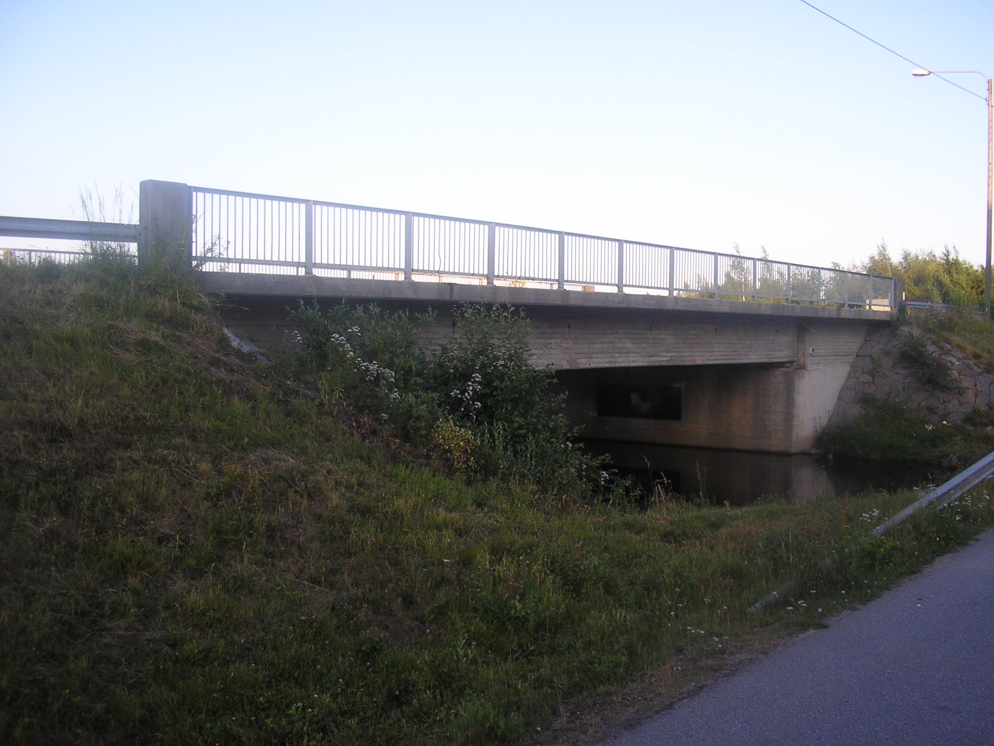 Storströmsbron in regional road 749 in Larsmo, Finland